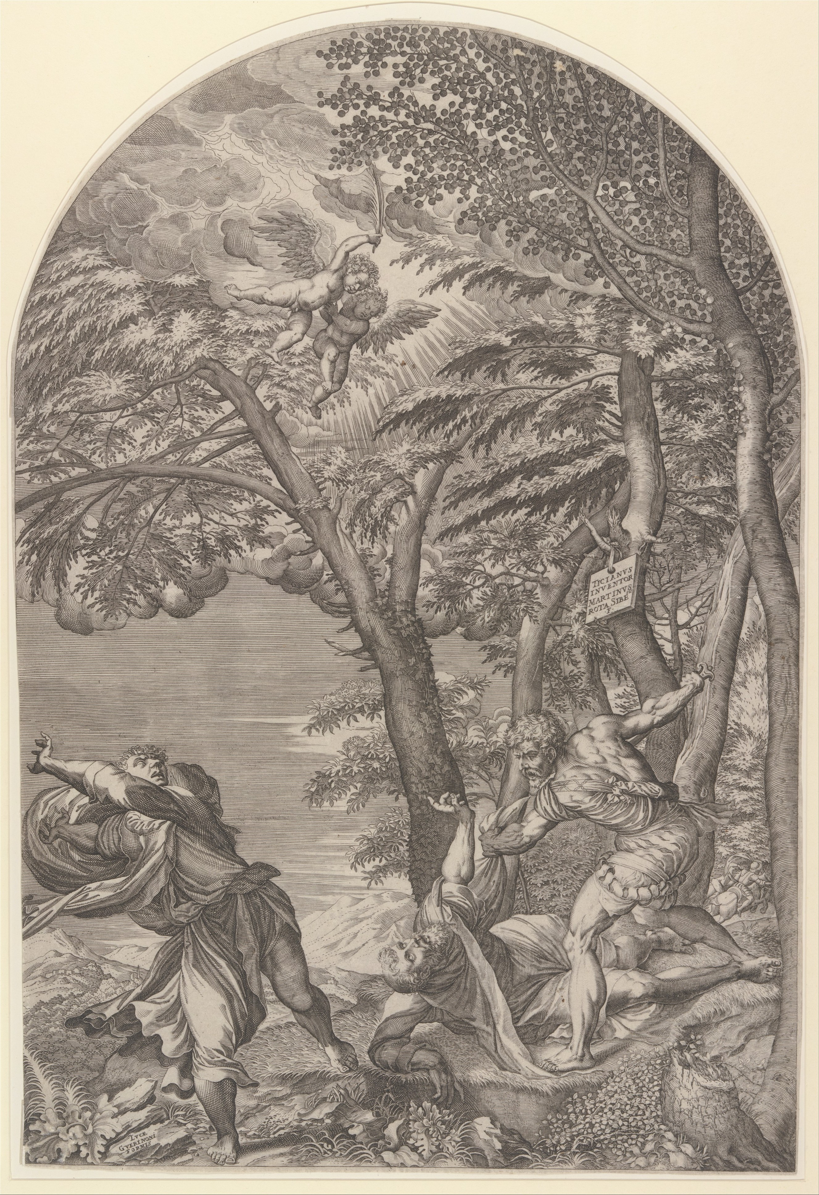 Print; Prints